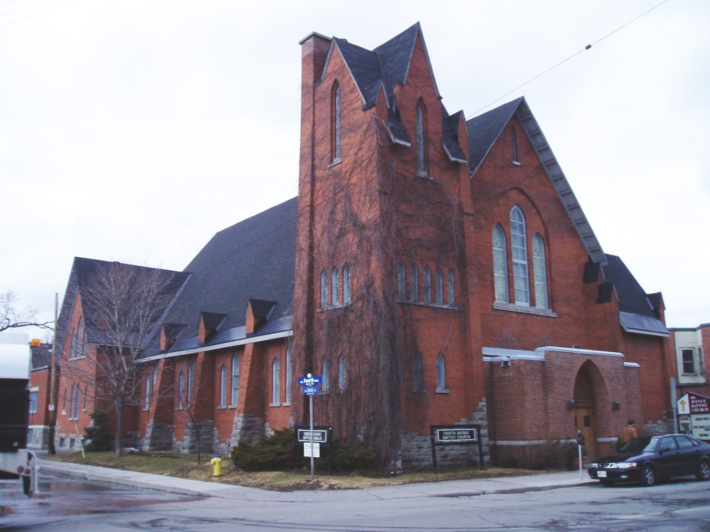 Taken by SimonP in February 2005